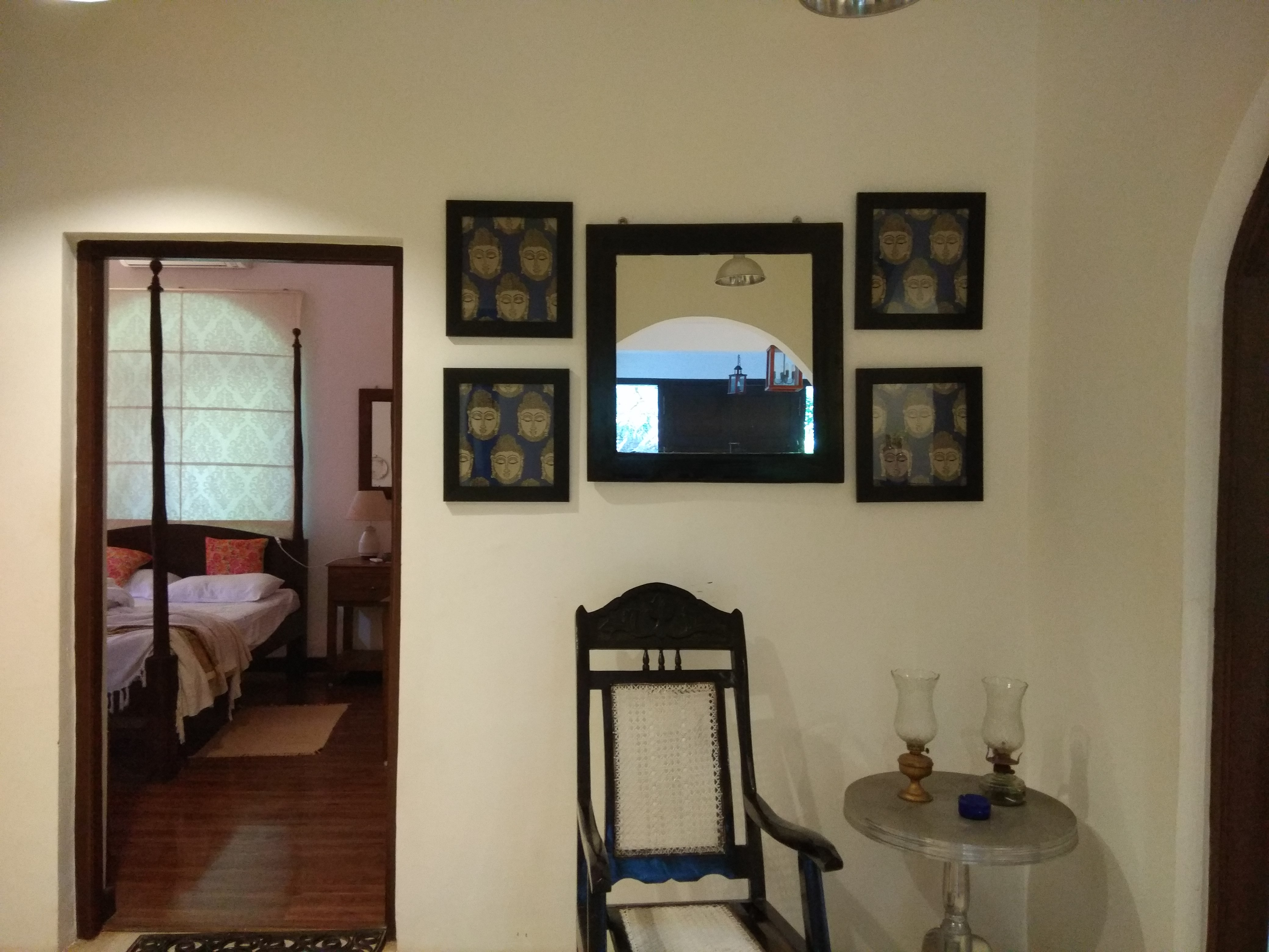 Mandrem House Goa